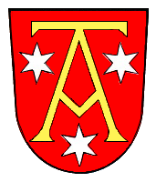 Coat of Arms of Geiselbach